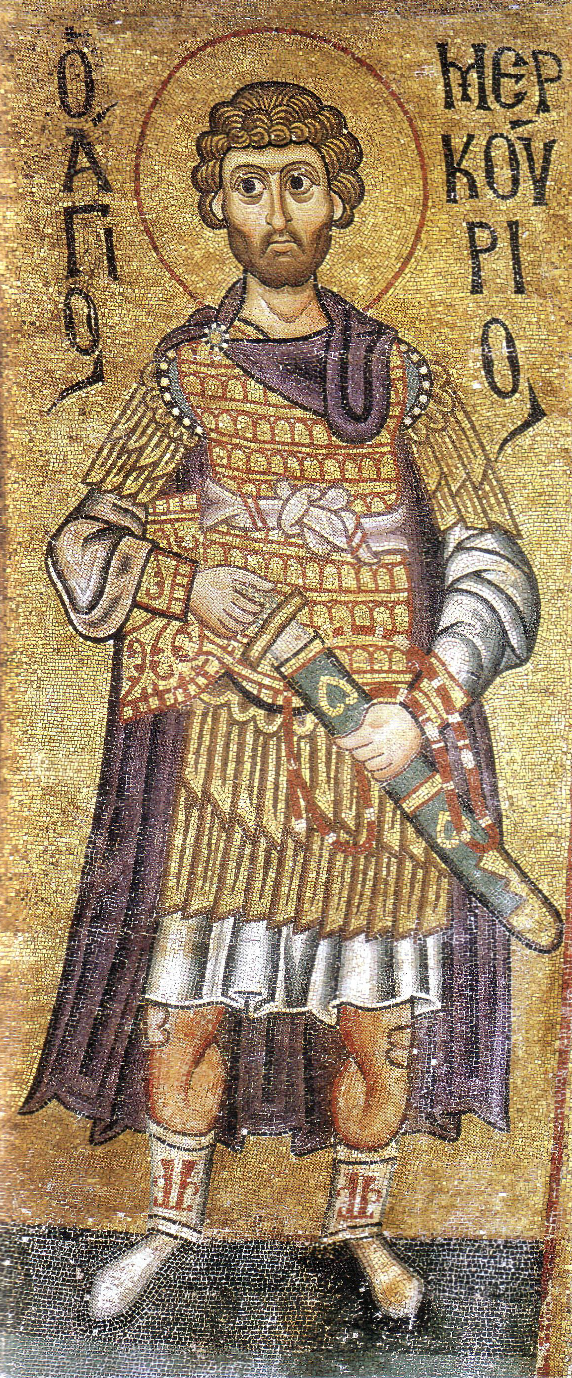 Hosios Loukas Monastery, Boeotia, Greece